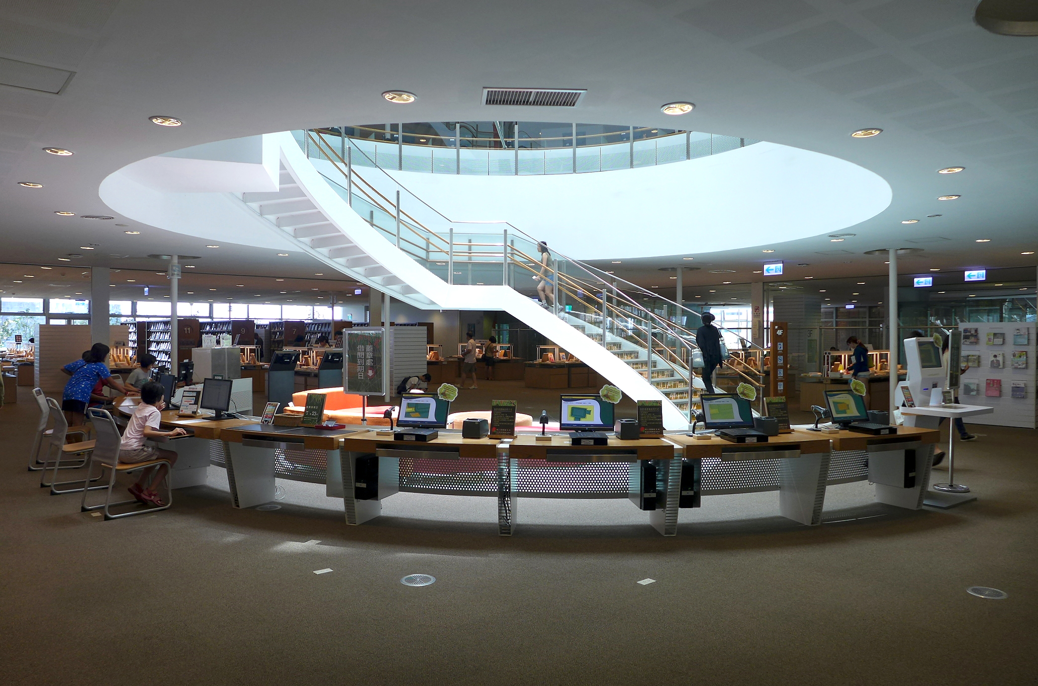 Kaohsiung Main Library Level 3